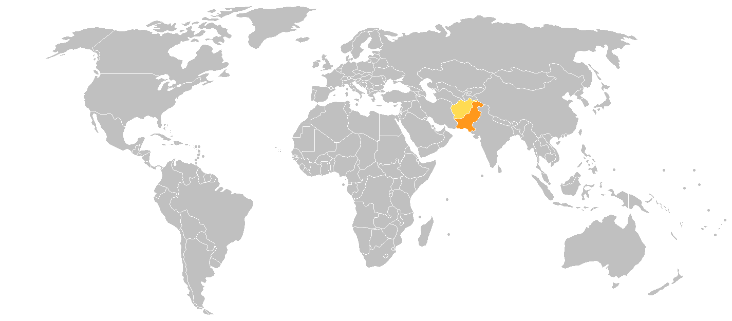 World map representing the incidence of poliomyelitis (wild virus) according to the WHO's Case Count on August 19th, 2015♦ 21 to 30 confirmed cases♦ 11 to 20 confirmed cases♦ 1 to 10 confirmed cases♦ No wild virus